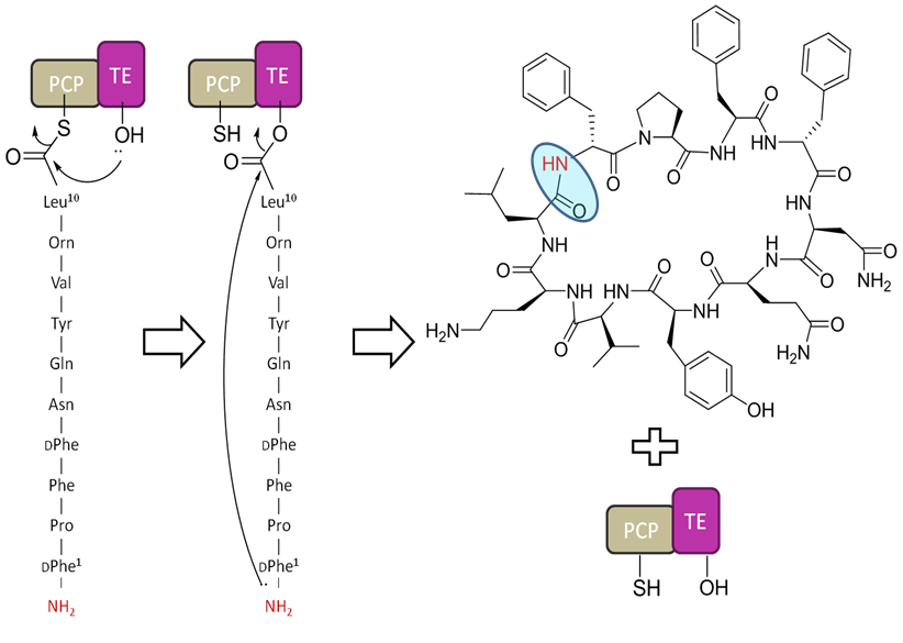 theoretical cyclization